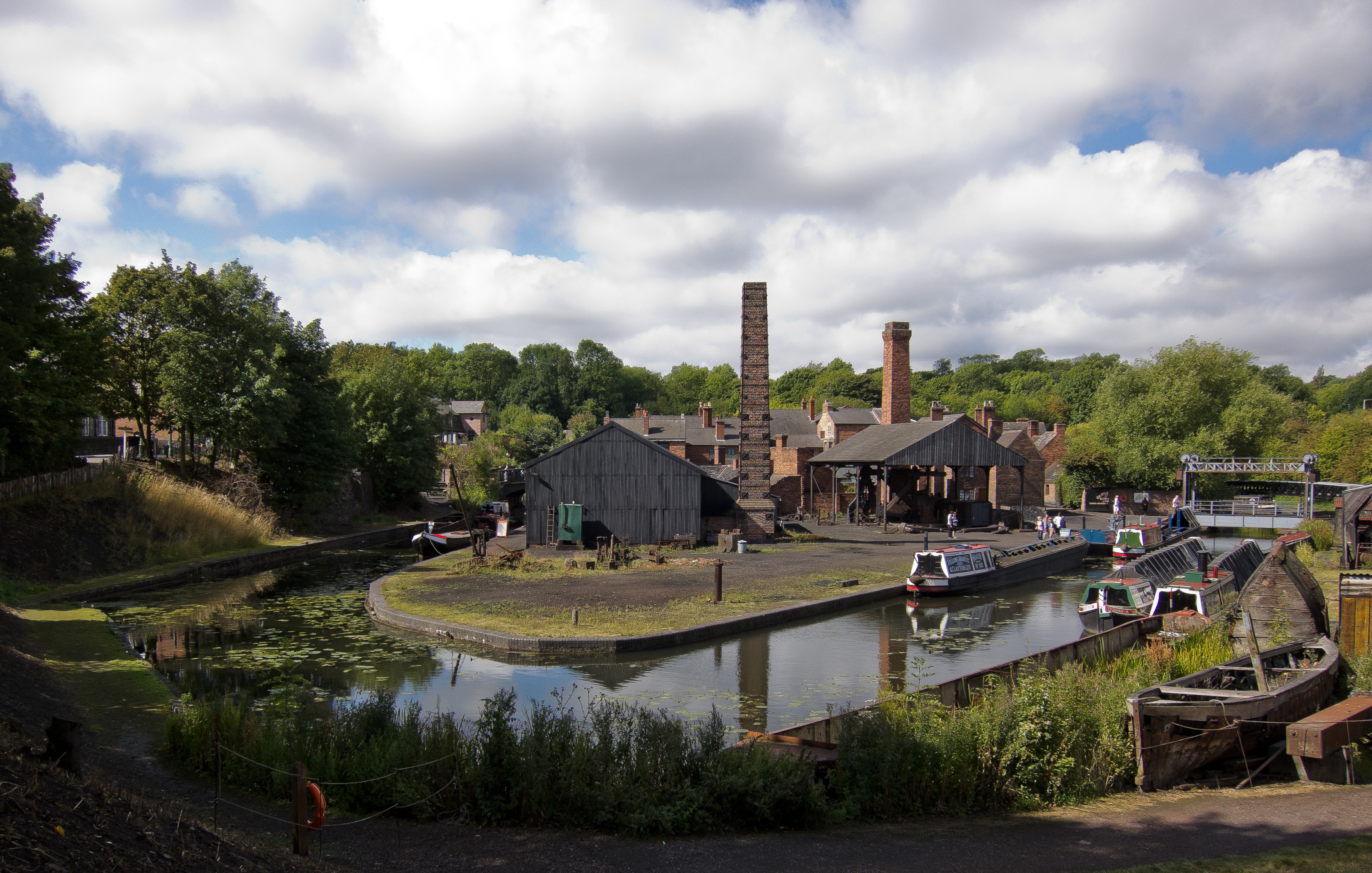 Canal Basin , Black country living museum